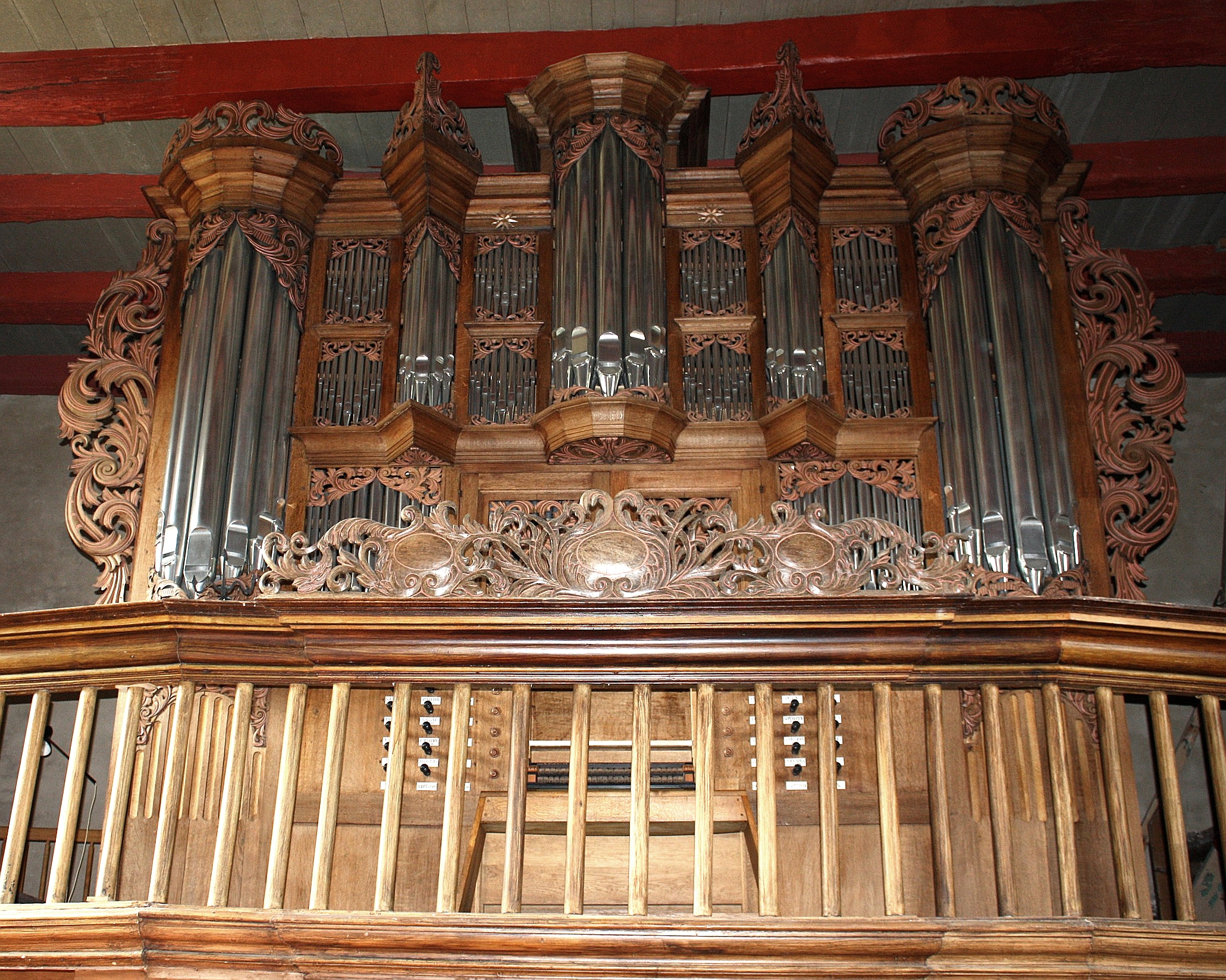 Alte Kirche St. Salvator (Pellworm), Orgel This is a photograph of an architectural monument. .1